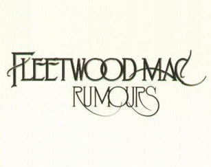 Rumours - Fleetwood Mac letters